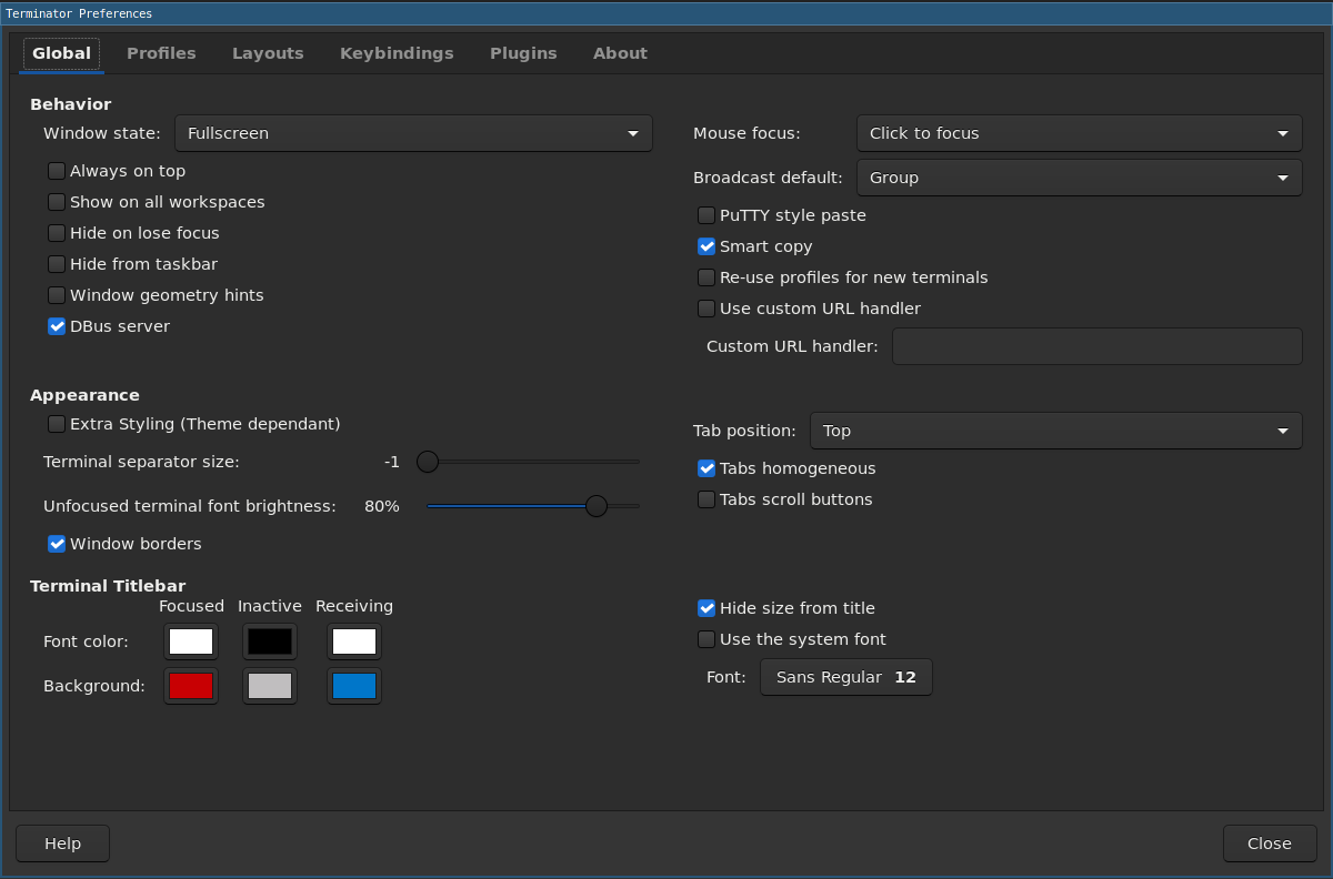 Among other options here we can change some colors.